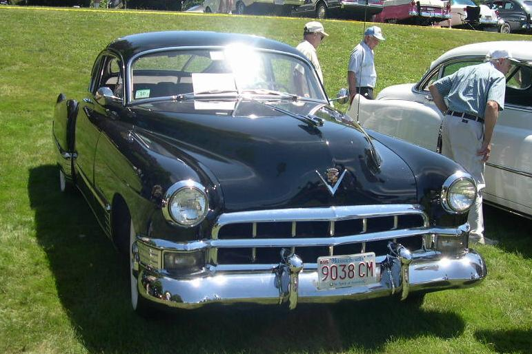 1949 Cadillac Series 61 Coupe Source: Photographed at the Bay State Antique Automobile Club's July 10, 2005 show at the Endicott Estate in Dedham, MA by User:Sfoskett